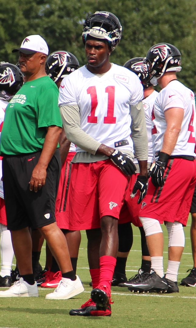 Julio Jones at Falcons training camp, 2015